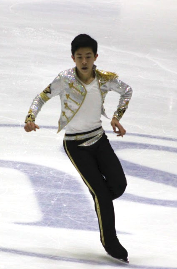 Nathan Chen in 2015